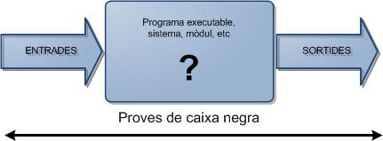 Black-box testing diagram